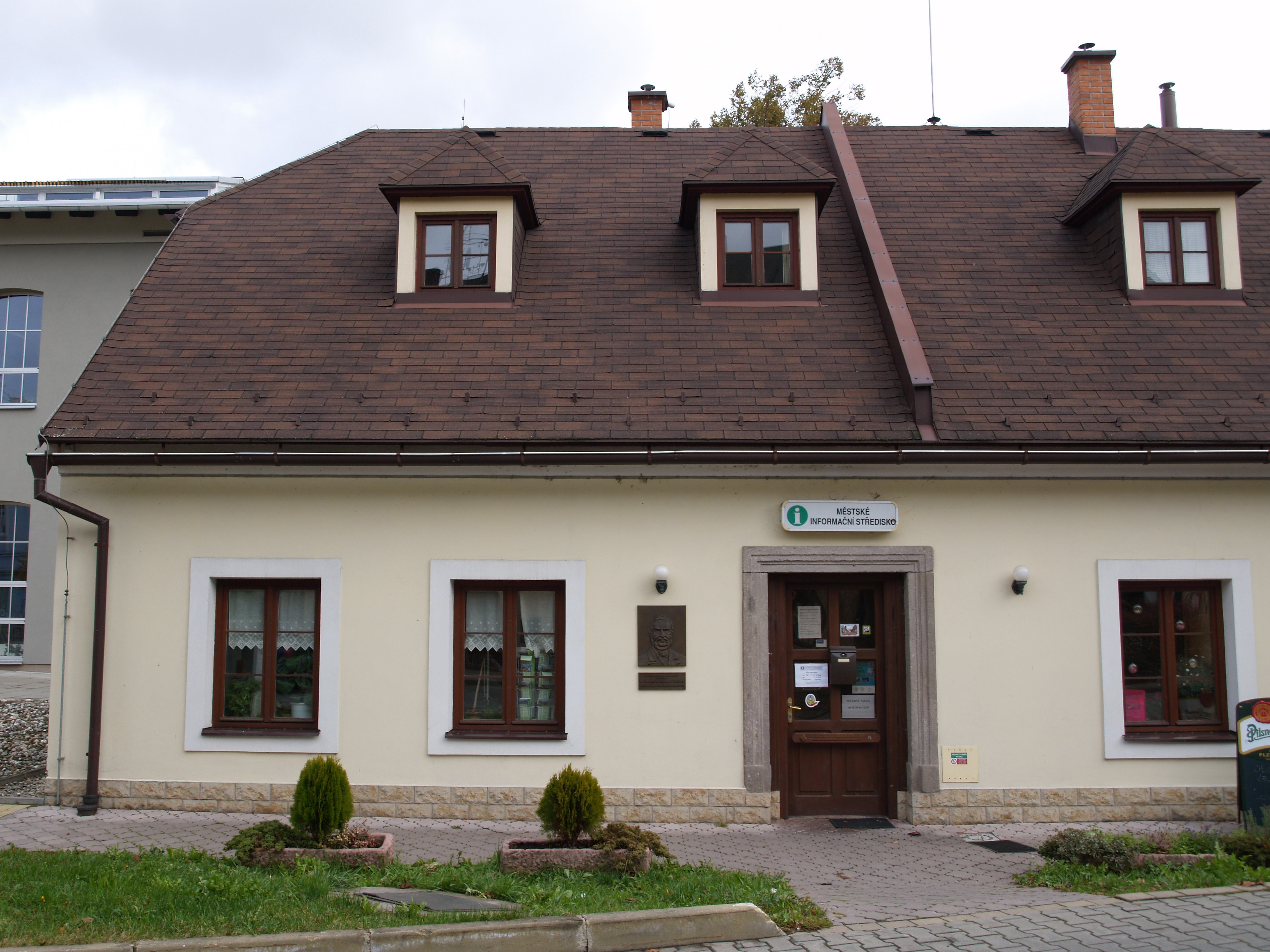 “Rieger House”—Birthhouse of Czech politician František Ladislav Rieger in Czech town Semily, originally part of “Rieger watermill”, now Municipal information centre